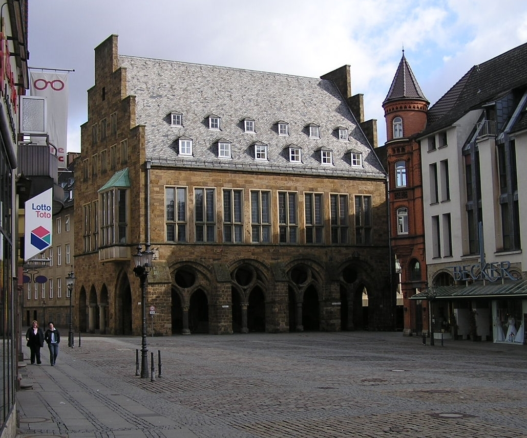 La historia urbodomo de Minden